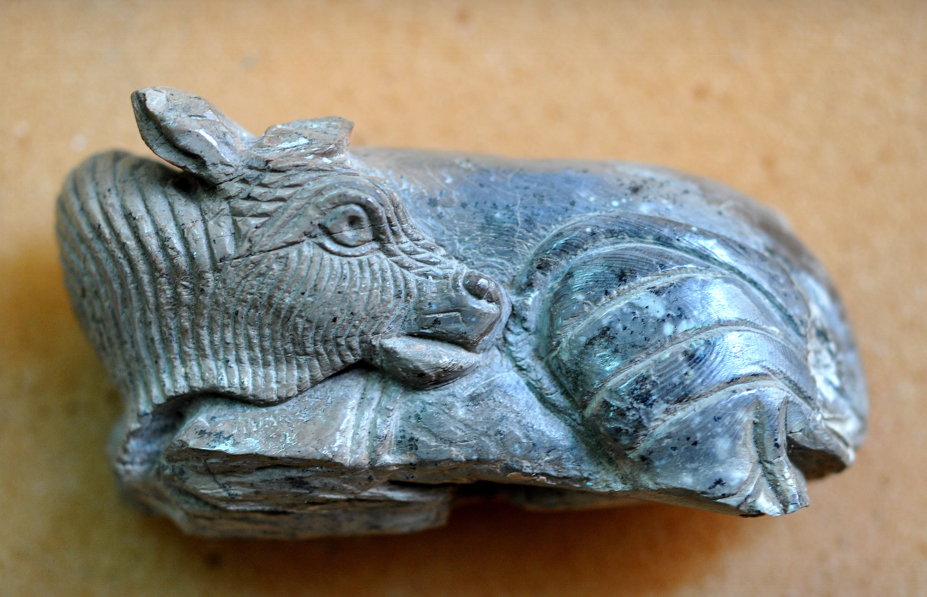 An exquisitely carved plaque of a supine bull. Note the black burn mark. Probably this was part of a group which once supported an ivory tray. Neo-Assyrian period, 9th-7th centuries BCE. From Nimrud, Mesopotamia, Iraq. The Sulaymaniyah Museum, Iraq.